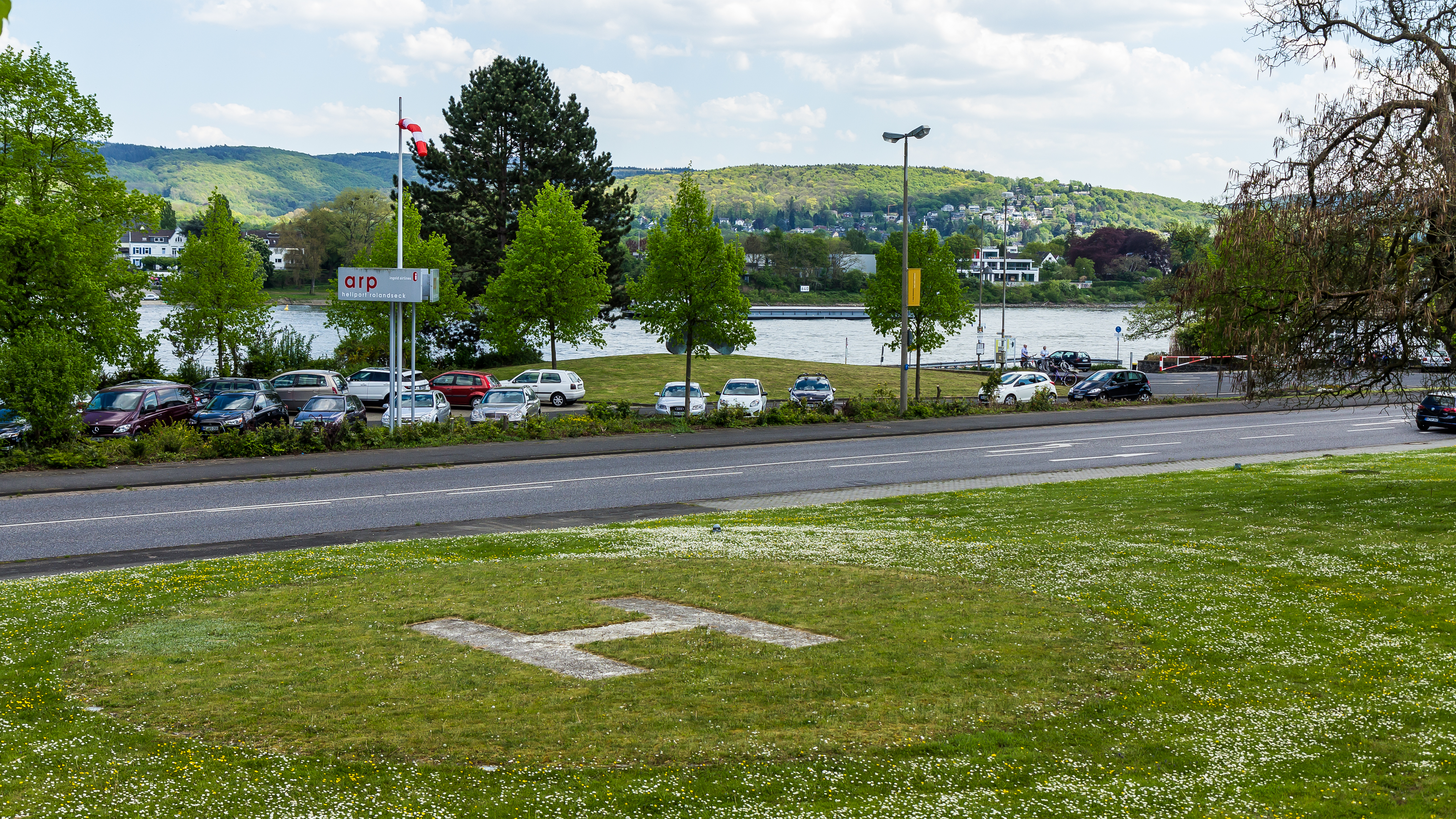 Arp Heliport Rolandseck, Ingold Airlines. Art project of the Swiss artist Res Ingold